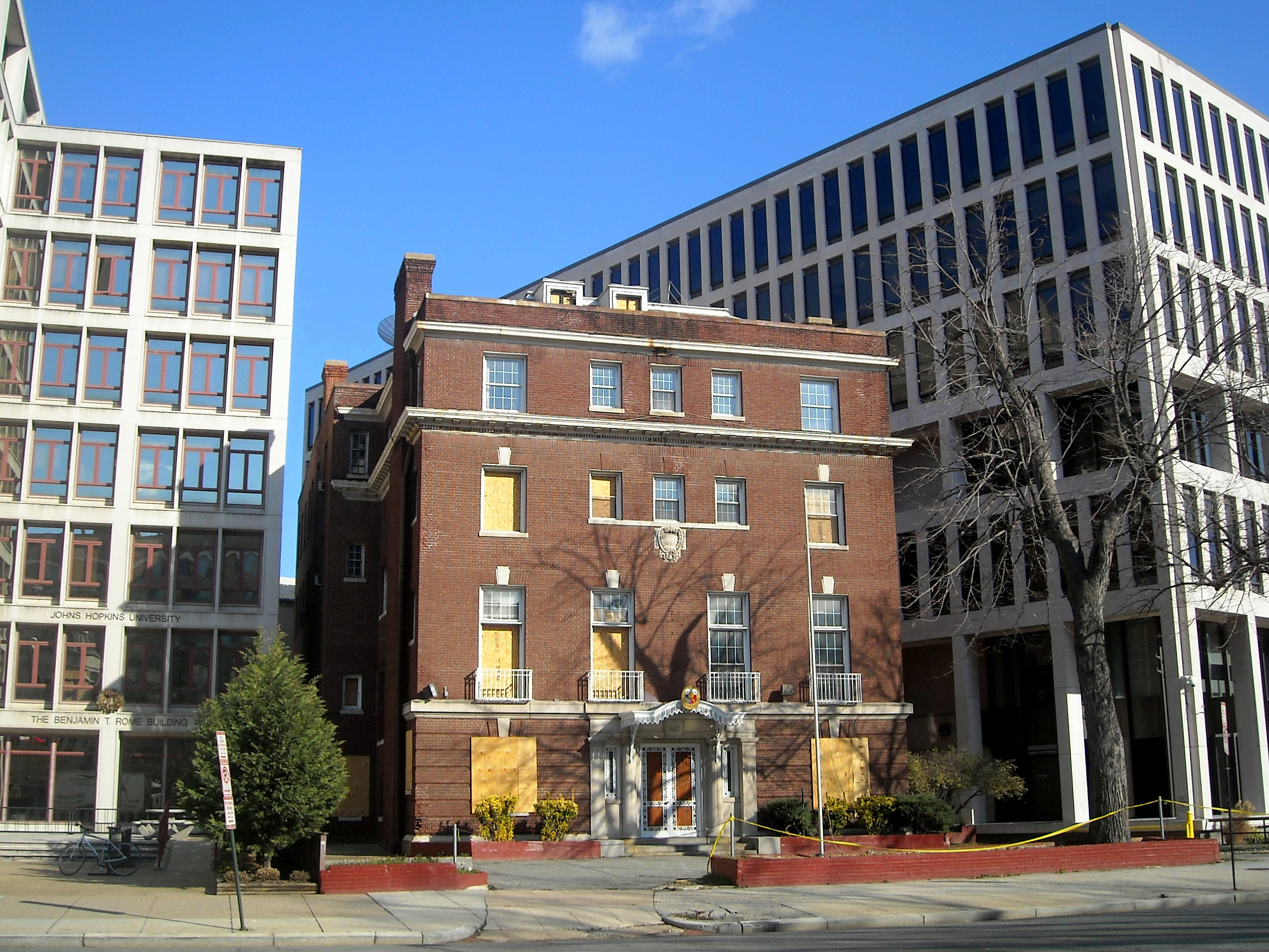 The Embassy of the Philippines' former chancery located on Scott Circle at 1617 Massachusetts Avenue, NW in the Dupont Circle neighborhood of Washington, D.C. Constructed in 1913 for John Sidney Webb, the building is a contributing property to the Dupont Circle Historic District. It served as the Embassy of the Philippines from 1946 to 1993 (the new embassy is located across the street), but is still owned by the Filipino government. The 2009 property value of the 12,000 square foot building is $5,165,000. The Embassy of Australia is the building seen on the right, and the Benjamin T. Rome Building (part of Johns Hopkins University's Washington, D.C. campus) is on the left.